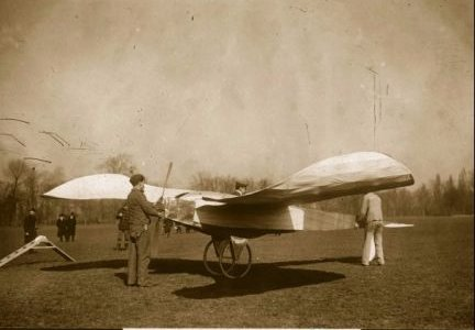 The Blériot V was an early French aircraft built by Louis Blériot. Utilizing a canard design, it was the first successful monoplane. Built in January 1907.